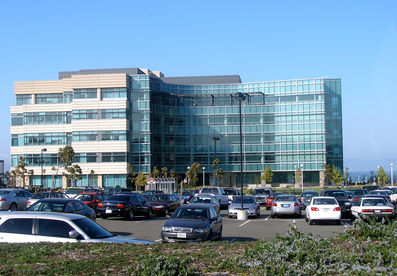 Building 32, one of the newest buildings on Genentech's sprawling headquarters campus in South San Francisco.Photographed on September 13, 2006 by user Coolcaesar.